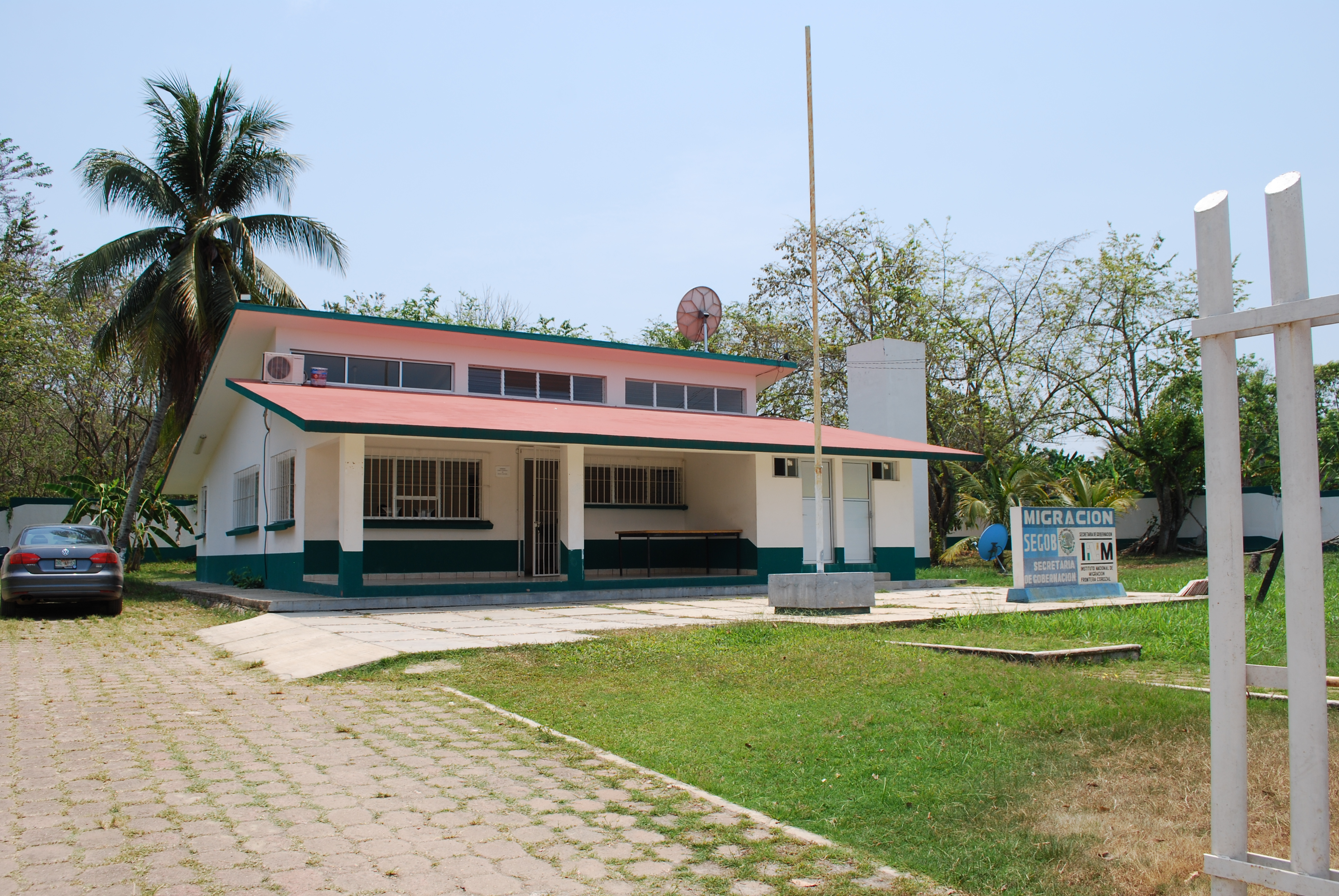 Immigration office in Frontera Corozal, Ocosingo, Chiapas, Mexico